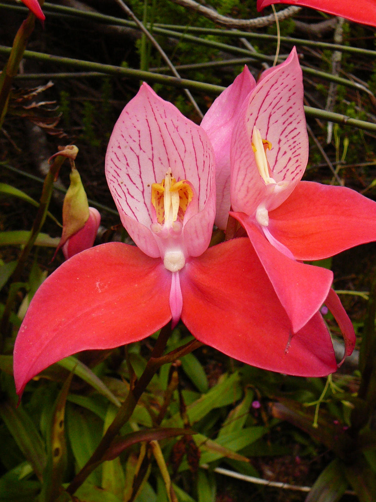 Disa uniflora blooms along the Aqueduct on the Back Table behind Table Mountain, Western Cape, South Africa